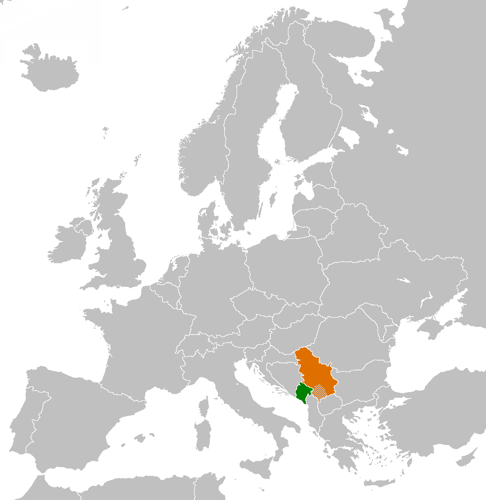 Location of Montenegro and Serbia.